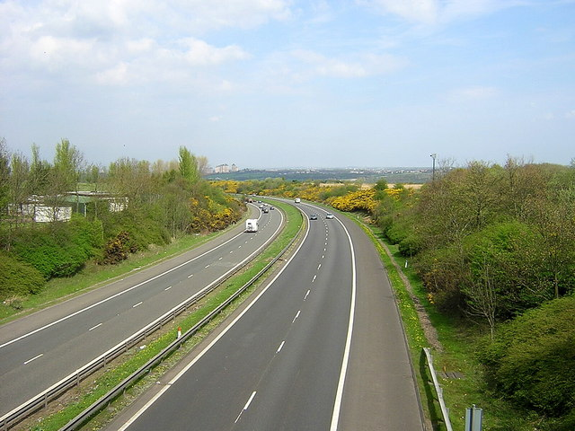 The M74 passes through a gorse banked cutting near Larkhall